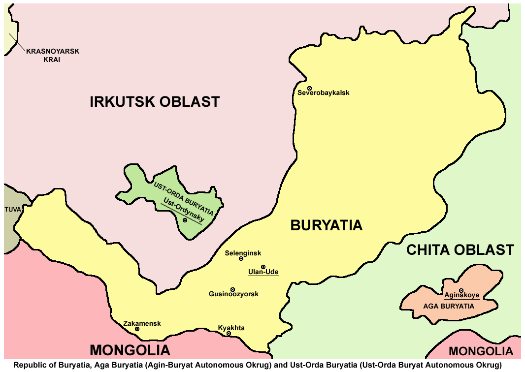 Map of the Republic of Buryatia, Aga Buryatia (Agin-Buryat Autonomous Okrug) and Ust-Orda Buryatia (Ust-Orda Buryat Autonomous Okrug) in Russia, until 2008.